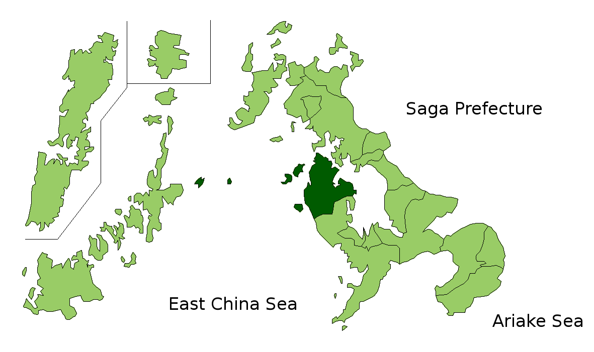 The location of Saikai in Nagasaki Prefectuur, Japan